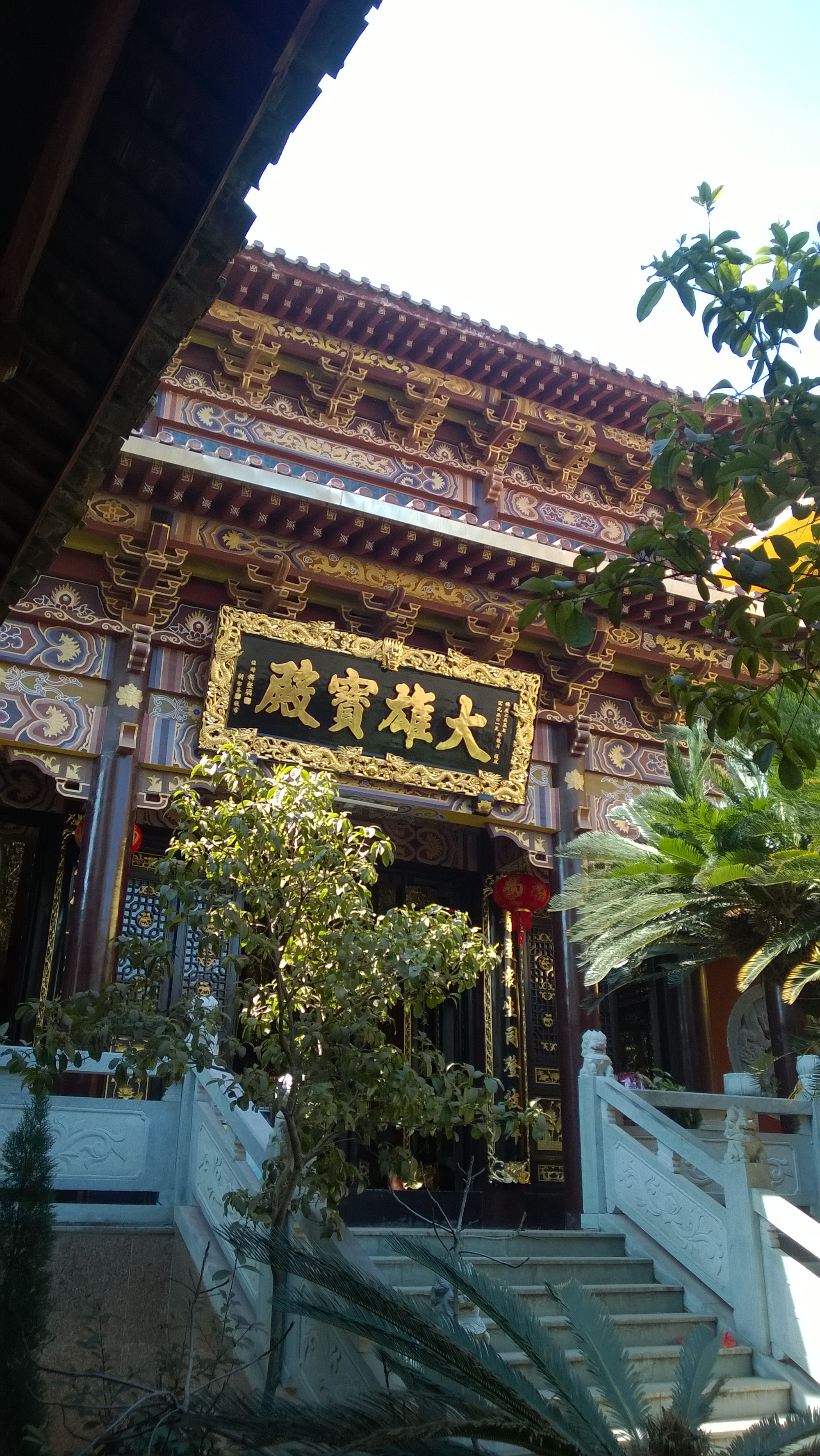 Puhui Temple, locating in Lianjiang Town, Xingguo County, Ganzhou City, Jiangxi Province. It is a historical and culture site protected at the county level.